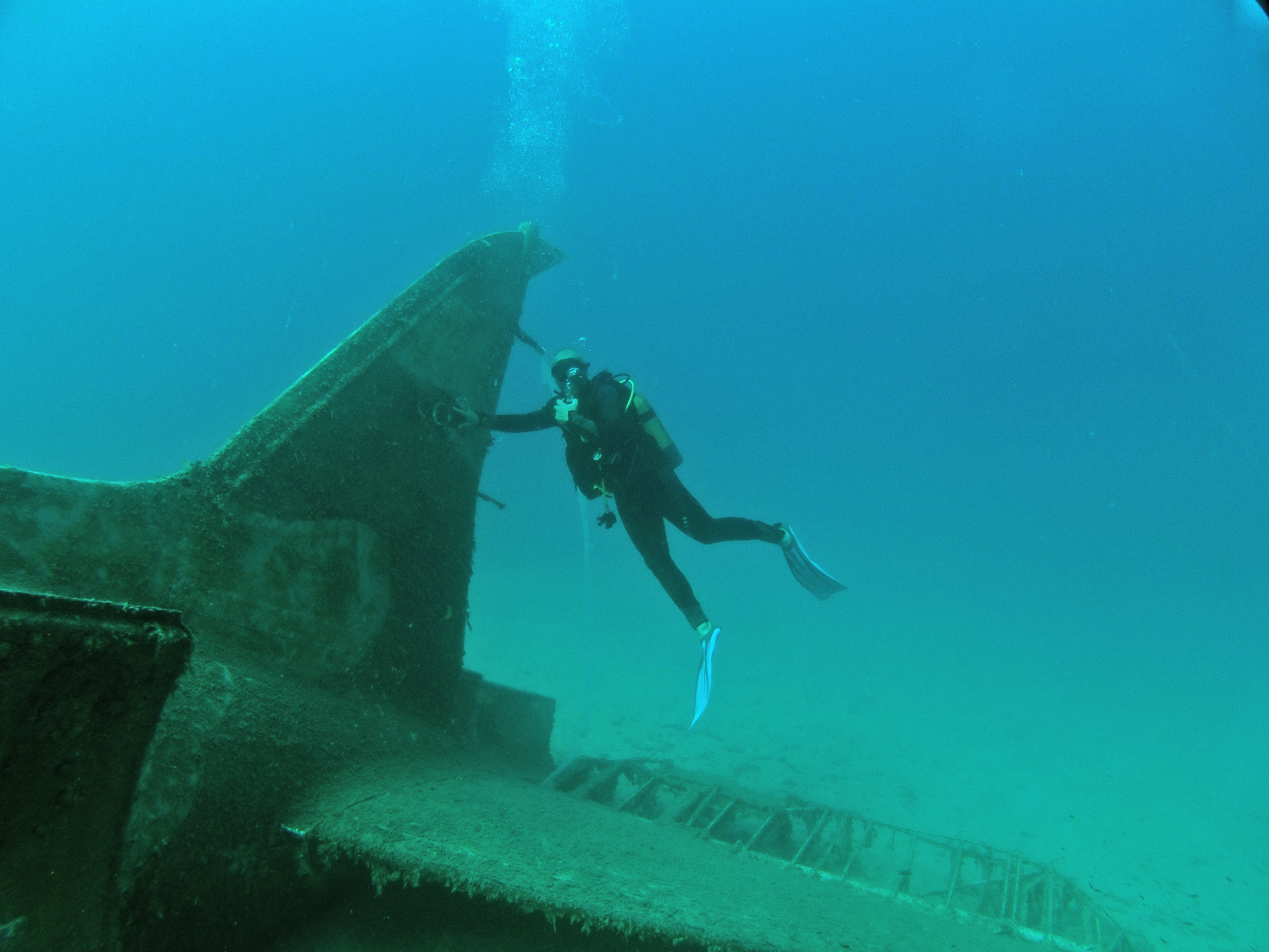 Tail of the C-47 Dakota in the bight of Kaş for scuba diving